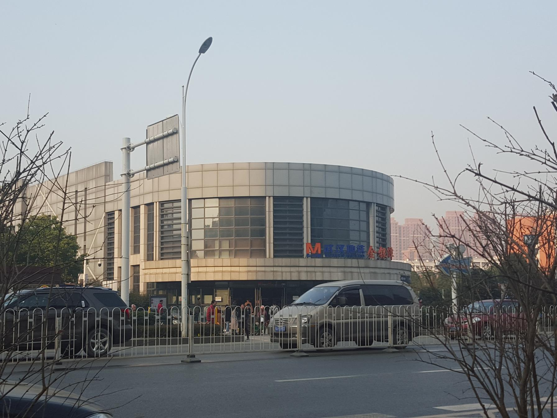 Entrance A of Jinyintan Station, Wuhan Metro